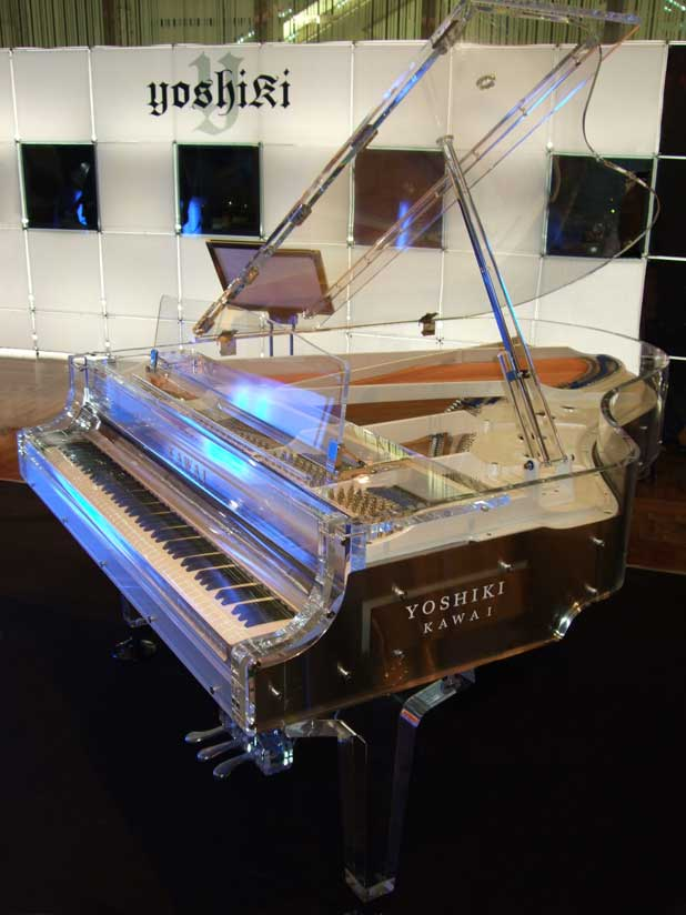 Kawai's acrylic grand piano, Crystal Grand CR-40A.